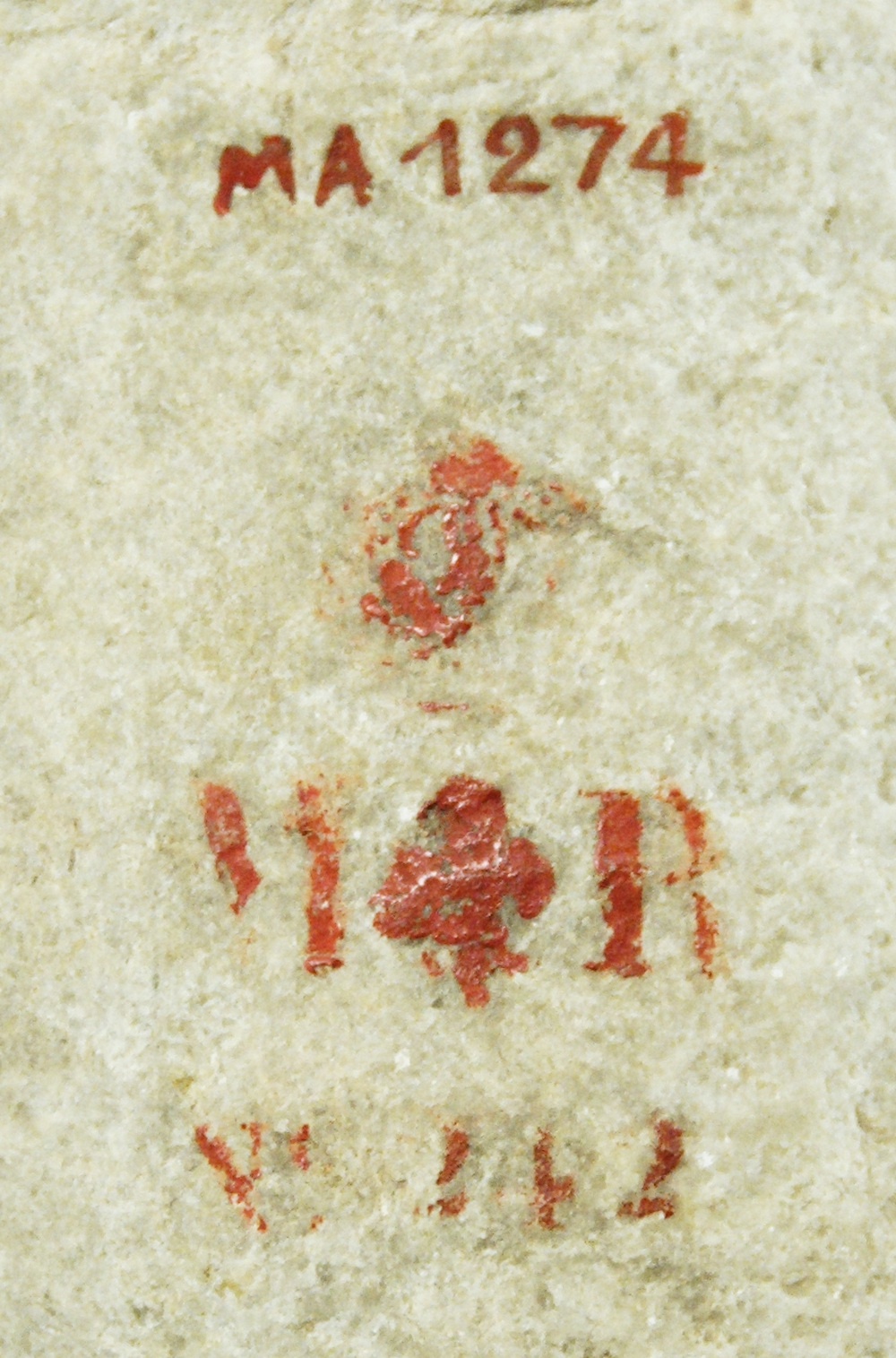 Identifiers on the back of a statue in the Louvre. “MR 242” is the accession number, identifying the object by the order in which it entered the museum's collection; “MR” stands for “musées royaux”. “Ma 1274” is the “ordinary number”, identifying the object by its order of presentation in the rooms; the classification originates in Héron de Villefosse's Catalogue sommaire des marbres antiques (1896), hence the “Ma” prefix.